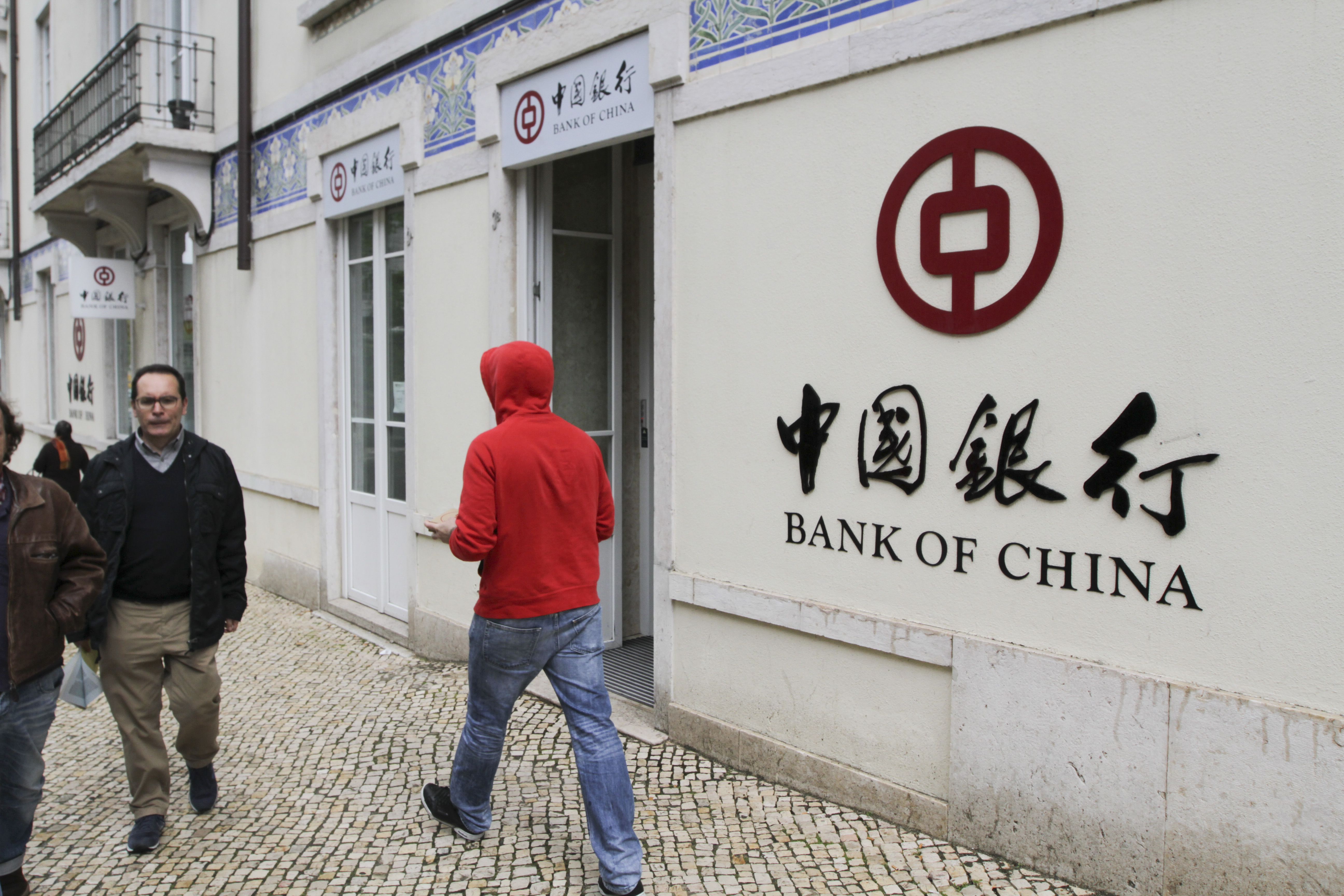 Bank of China Portugal representation